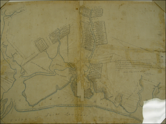 Land grant map of the Saint-Louis-de-Kent region in New Brunswick, Canada.